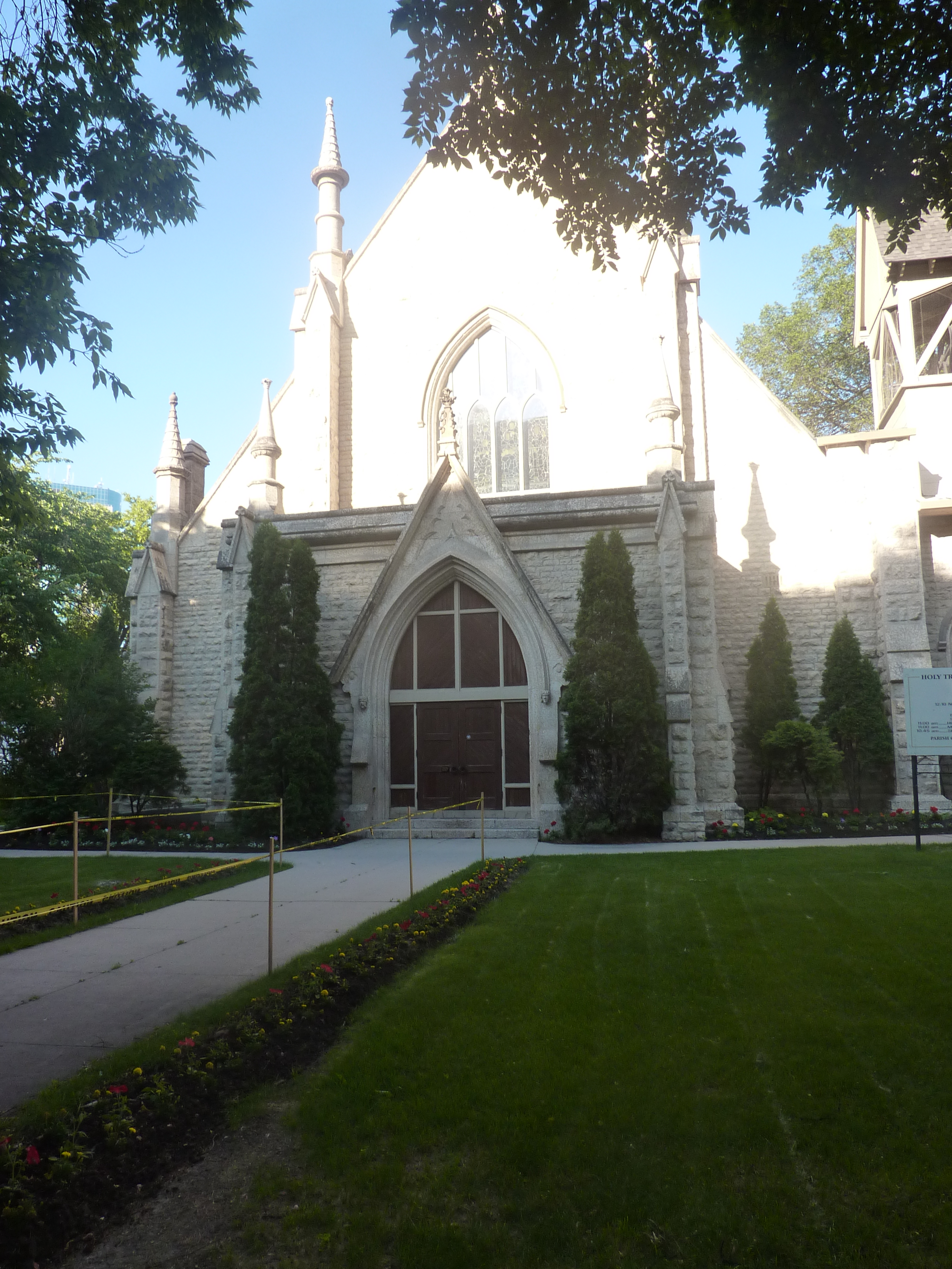 Holy Trinity Anglican Church, Winnipeg